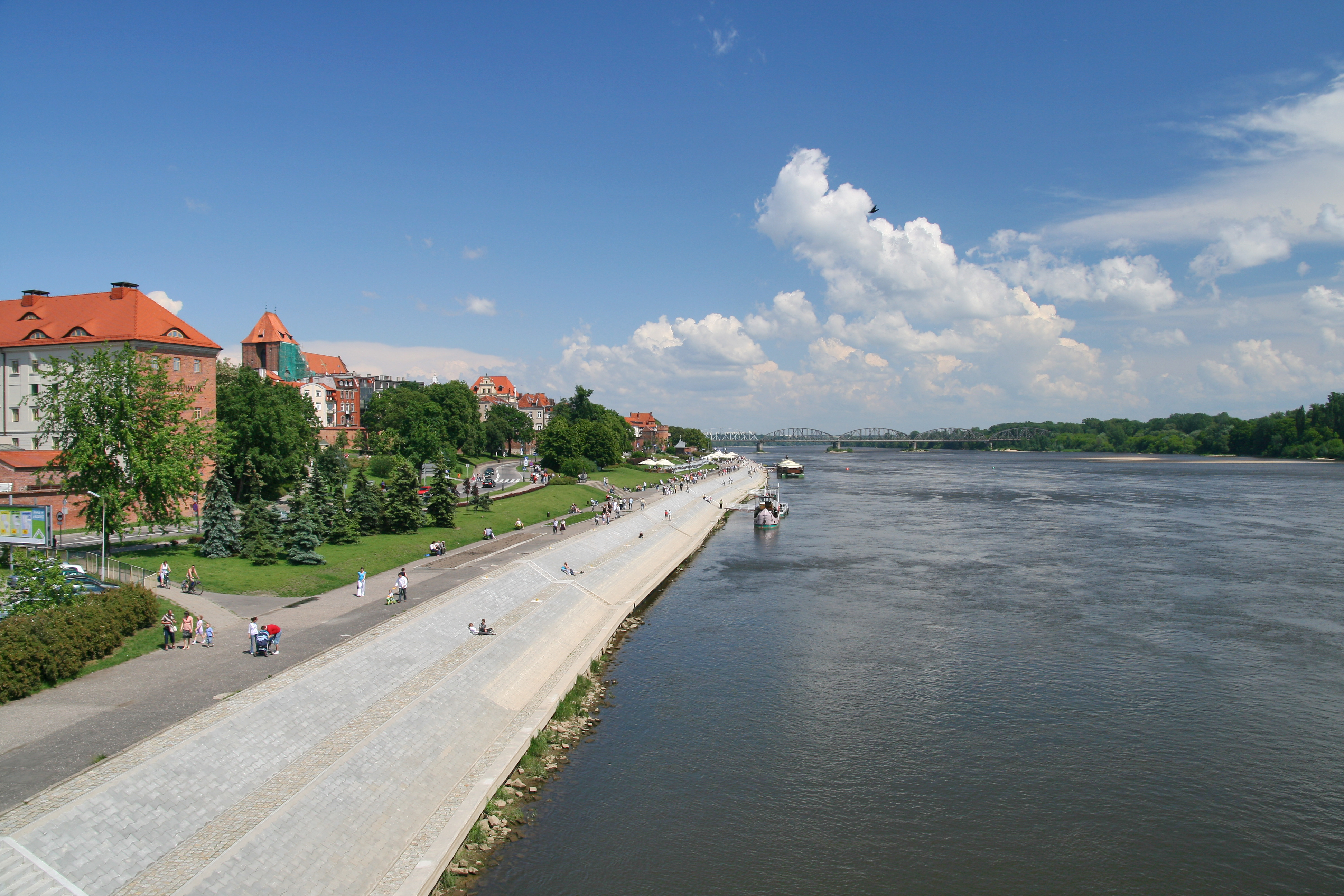 Vistula in Toruń (Poland).